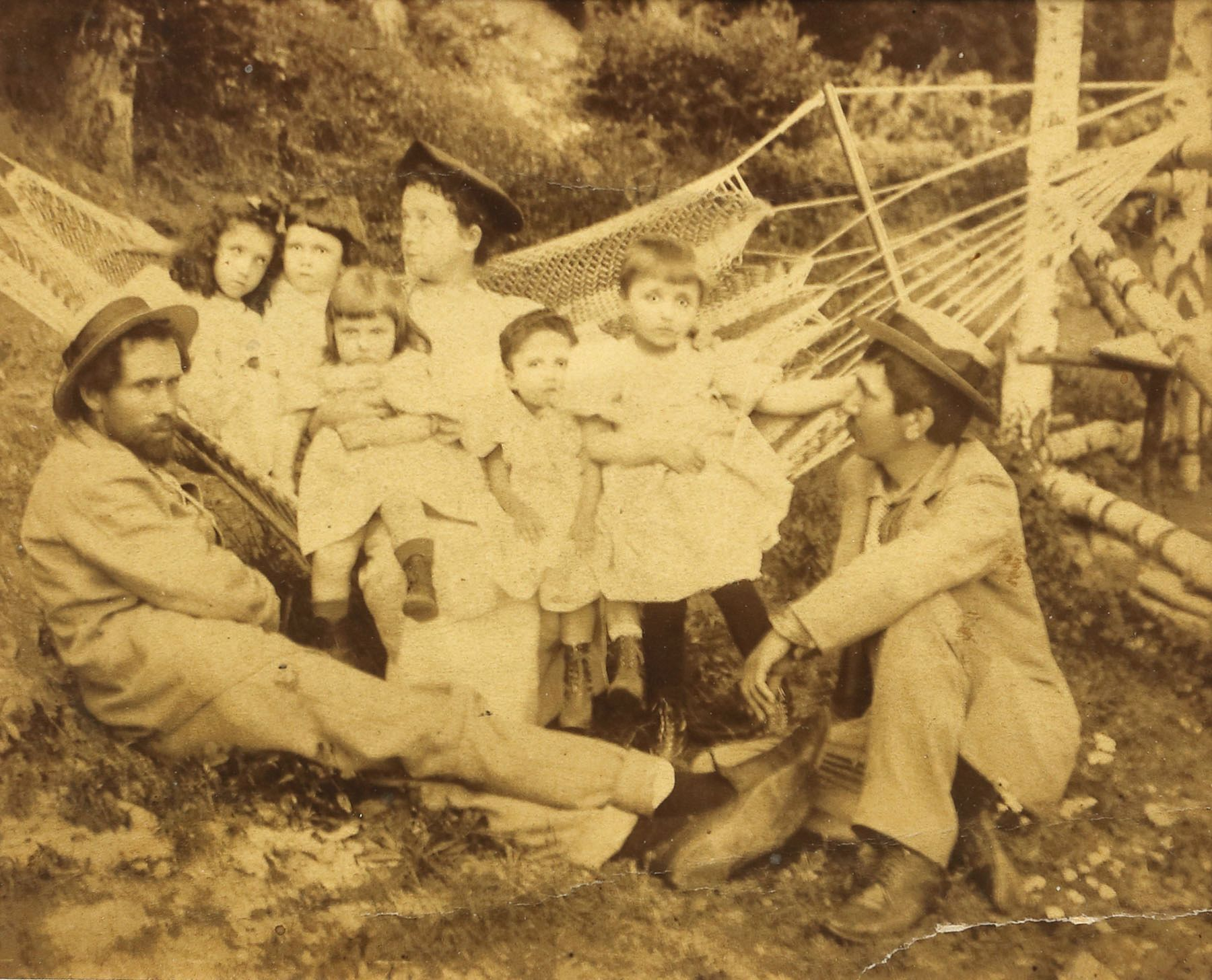 Photograph of Romanian writers Alexandru Vlahuţă (right) and Barbu Ştefănescu Delavrancea (left) with the Delvrancea family. The Delavrancea children presumably include future pianist Cella Delavrancea and actress Henrieta Delavrancea-Gibory. Originally published in Luceaferul magazine, January 15, 1905.